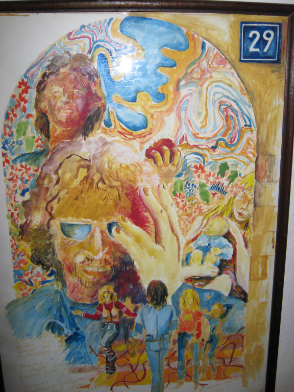 DraganKosovac